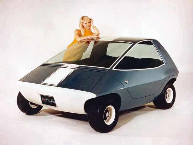 The AMC Amitron was a prototype electric vehicle from 1967. It used dual batteries and featured regenerative braking. There are no doors, instead the entire top of the vehicle hinges to the rear. It seats three abreast, a feature that re-appeared in the Pacer. This photo is part of a press kit released by AMC in 1967.